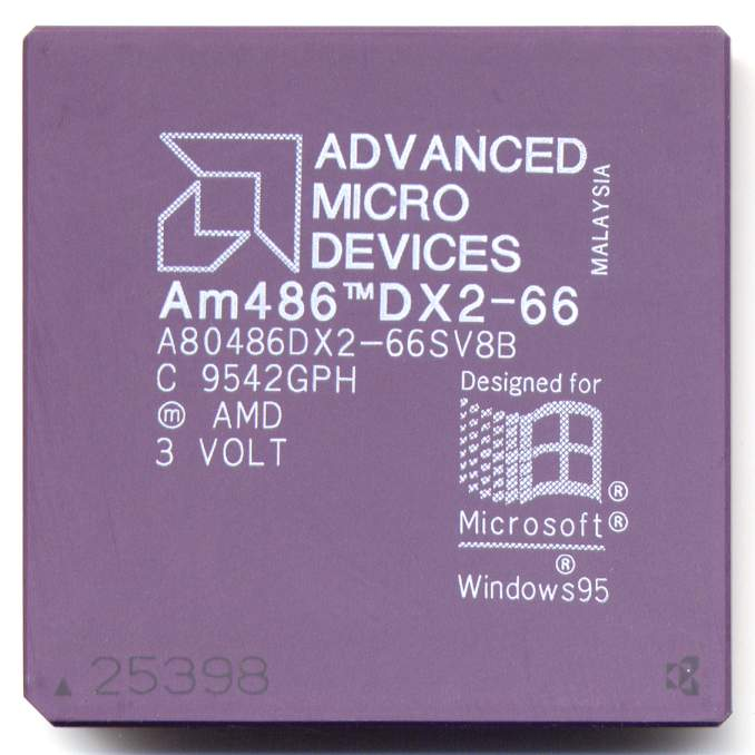 AMD Enhanced Am486 DX2-66 microprocessor, 66 MHz, 3.3V SV8B version with Write-Back L1-Cache